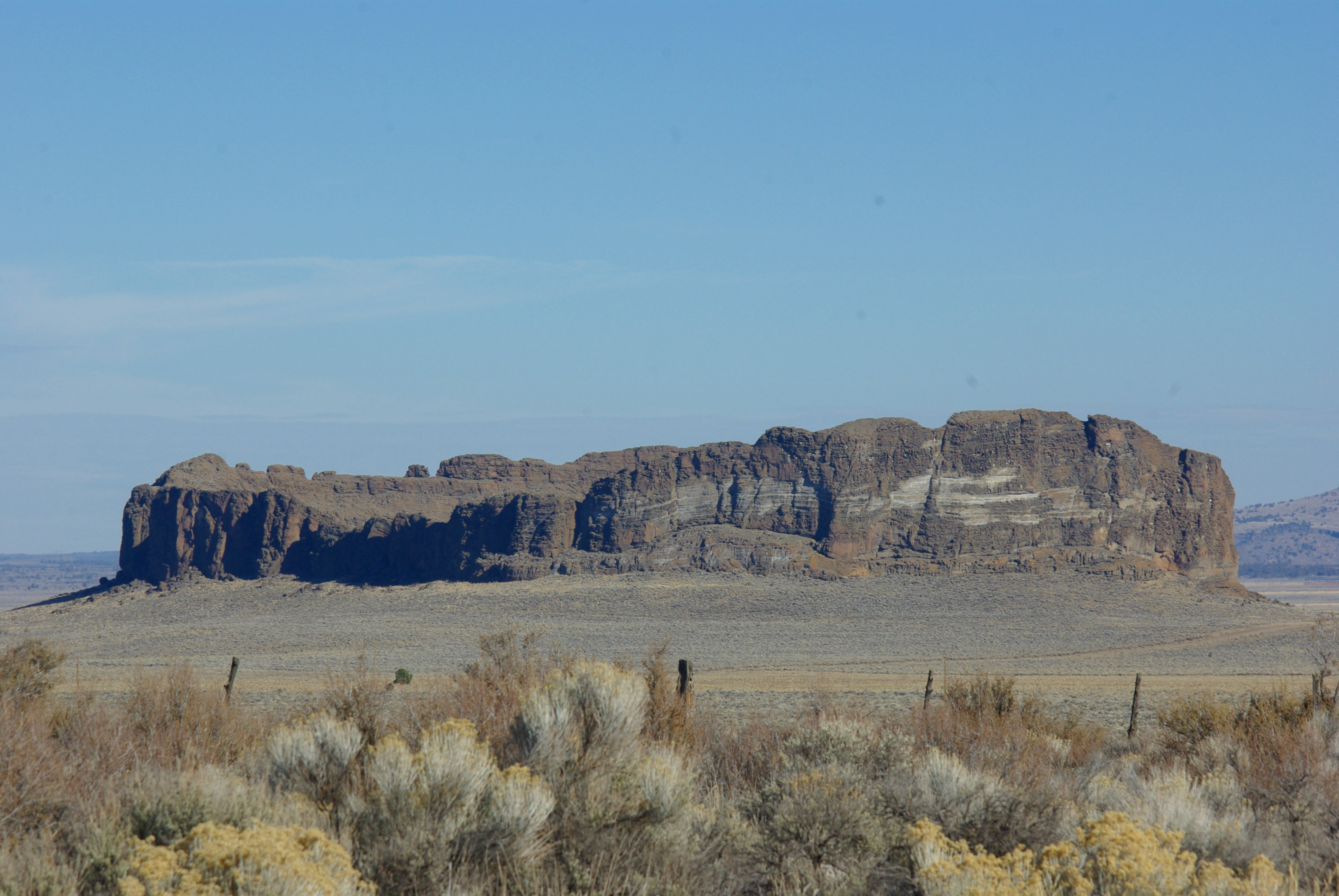 View of Fort Rock from the west showing the 'fort like' appearance.